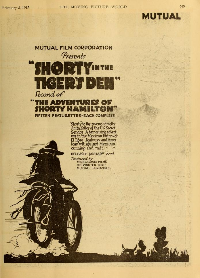 Advertisement in Moving Picture World